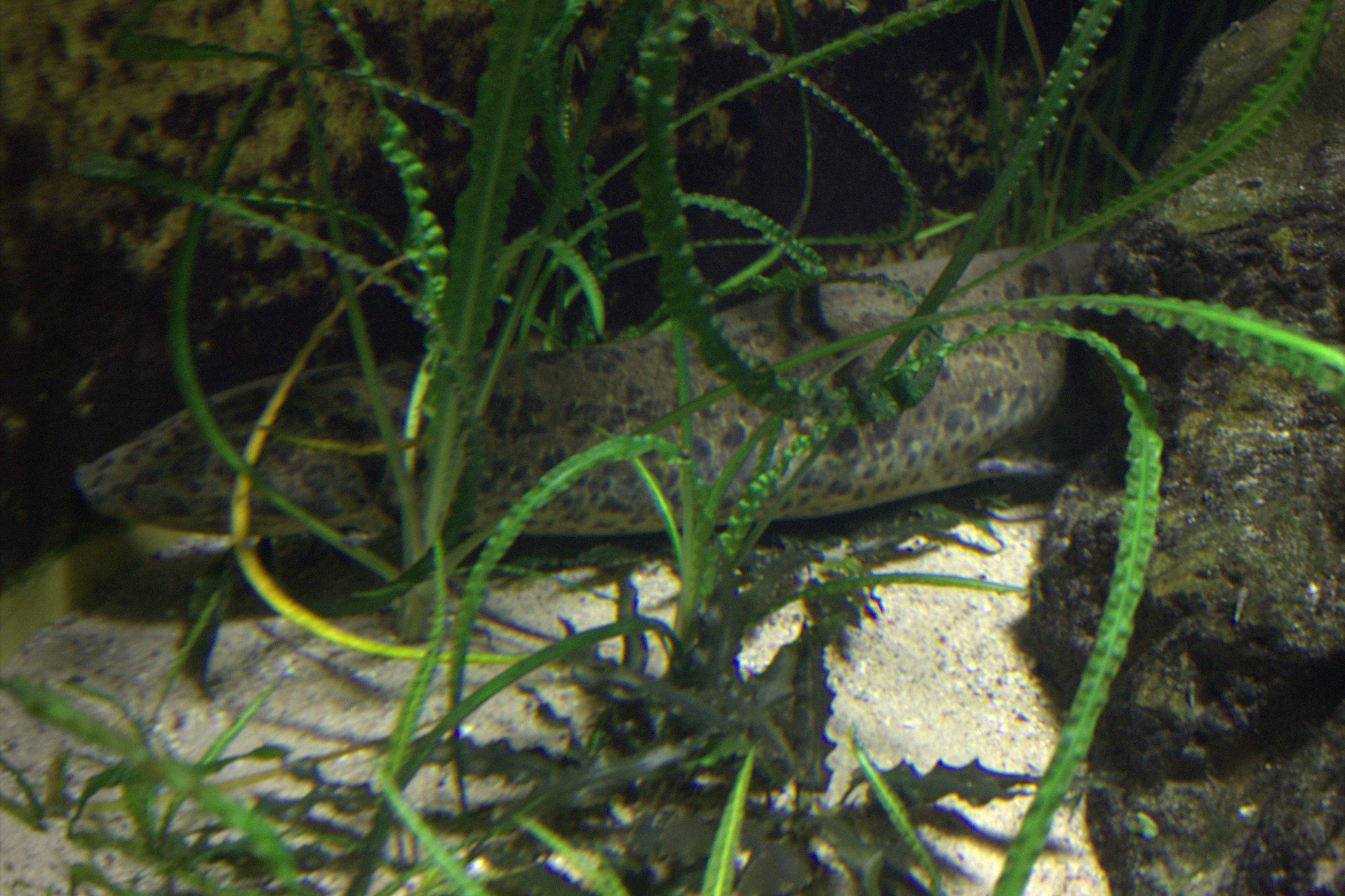 West African lungfish